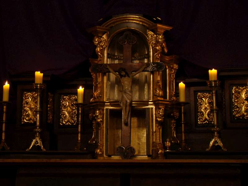 Holy Spirit Church in Bytom (Poland), Good Friday